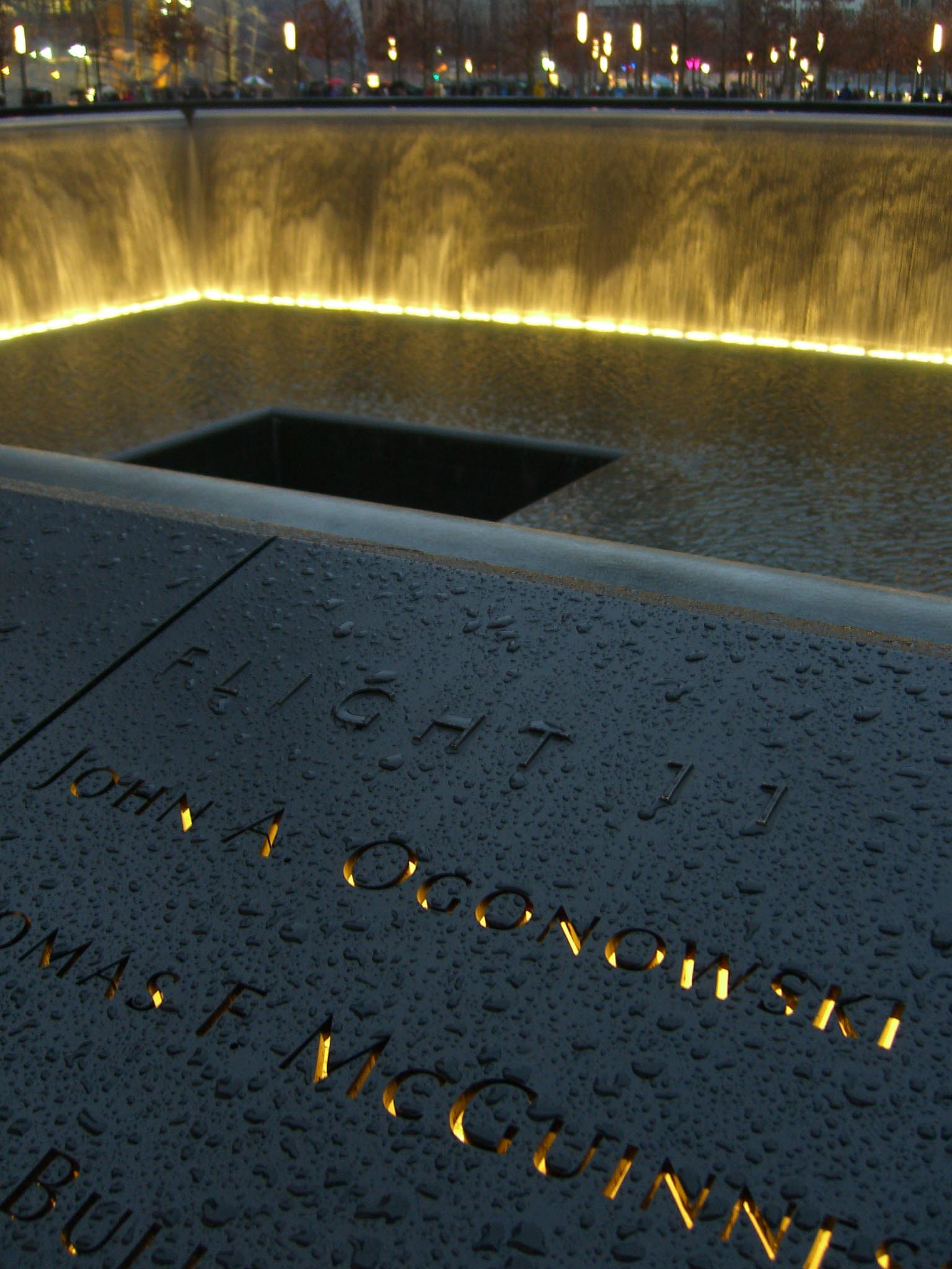 The name of John Ogonowski is seen with those of other 9/11 victims from American Airlines Flight 11, inscribed on bronze panel N-74 of the North Pool of the National September 11 Memorial in Manhattan, as seen on December 6, 2011. This photo was created by Luigi Novi. If you have any questions, you can contact me by sending me an email or User talk:Nightscream